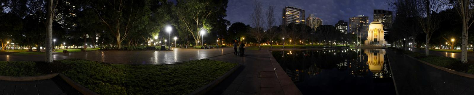 ANZAC War Memorial in Hyde Park at night